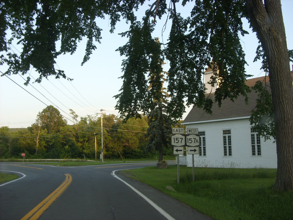 New York State Route 157 eastbound at the junction with New York State Route 157A in the hamlet of Thompsons Lake, New York.